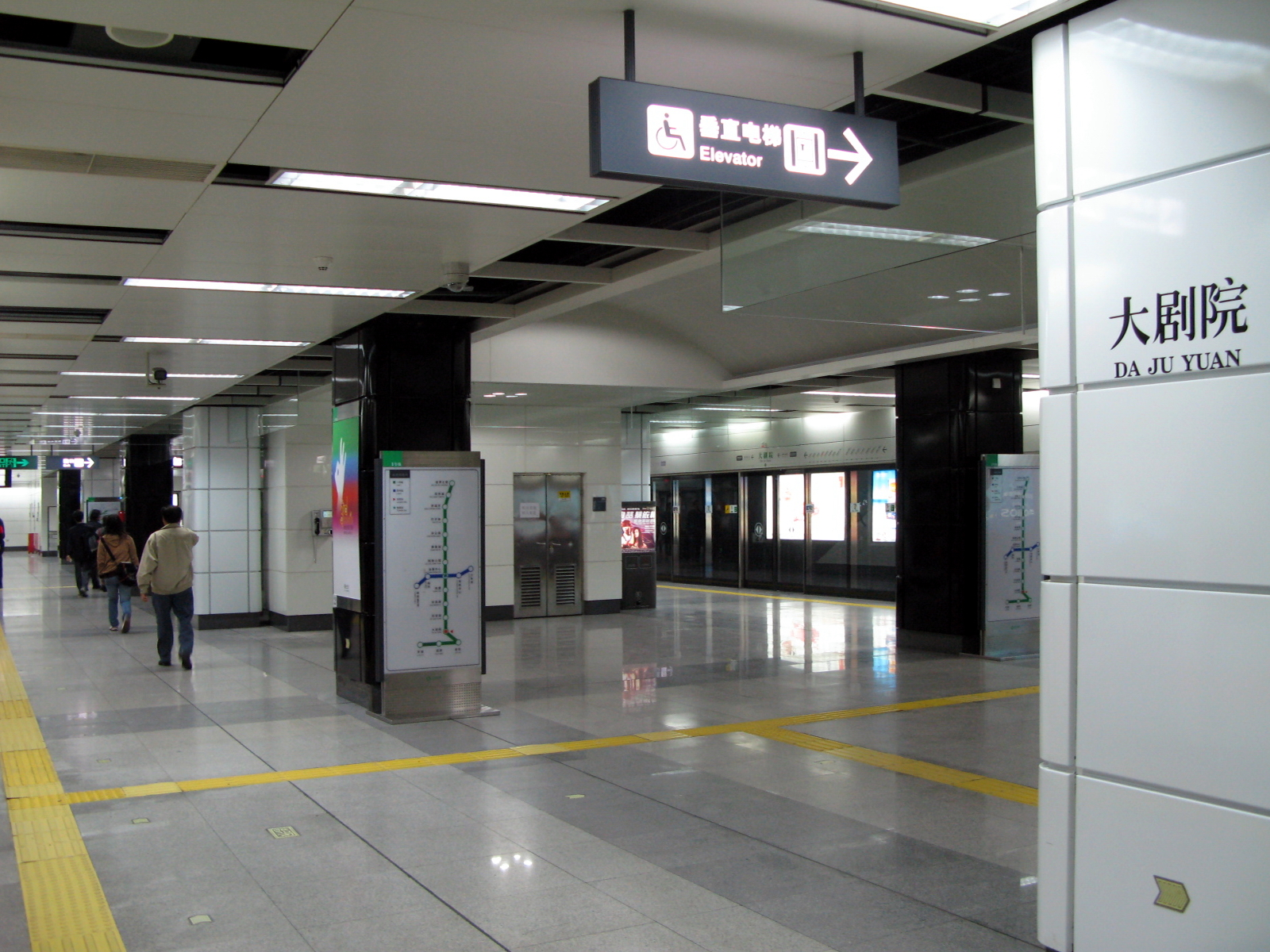 ShenZhen Metro The Grand Theater Station Platform